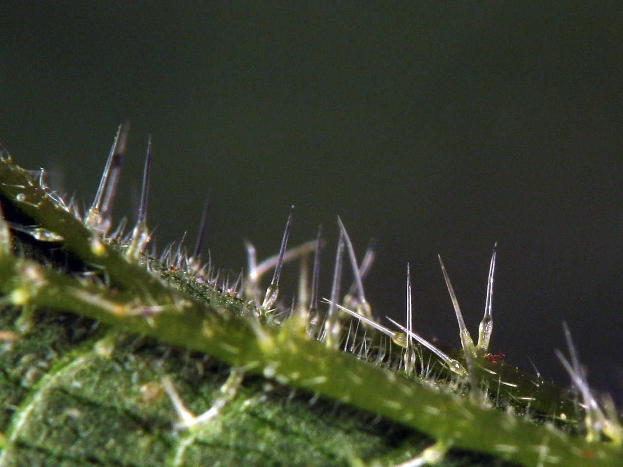 Normal and stinging hairs of a Urtica dioica